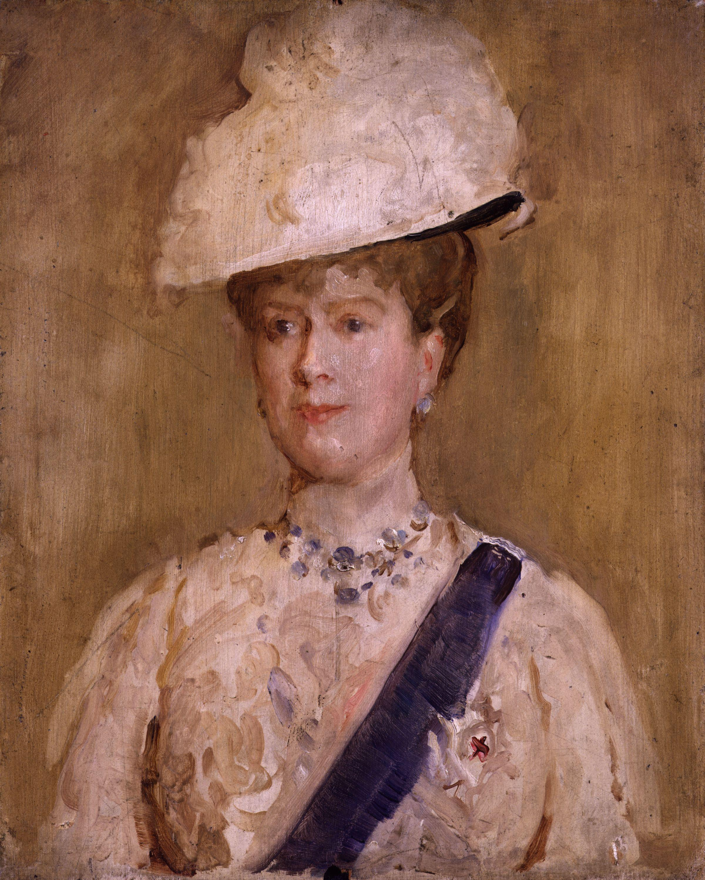 Queen Mary, by Solomon Joseph Solomon (died 1927). All images in this batch have been confirmed as author died before 1939 according to the official death date listed by the NPG.